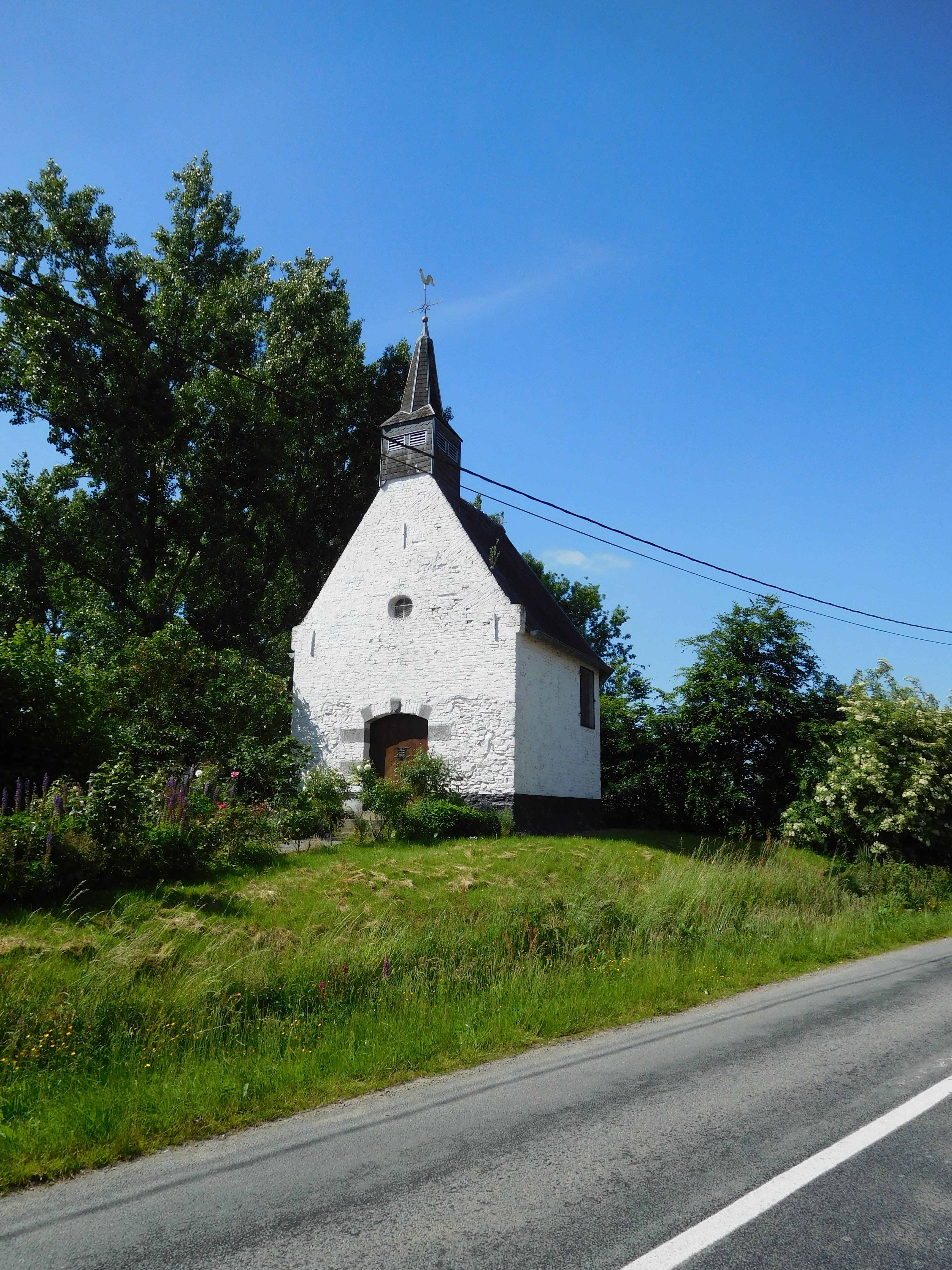 The chapel 'Notre-Dame de Scaubecq' dates back to the XVIth century (in Ellezelles, Belgium)